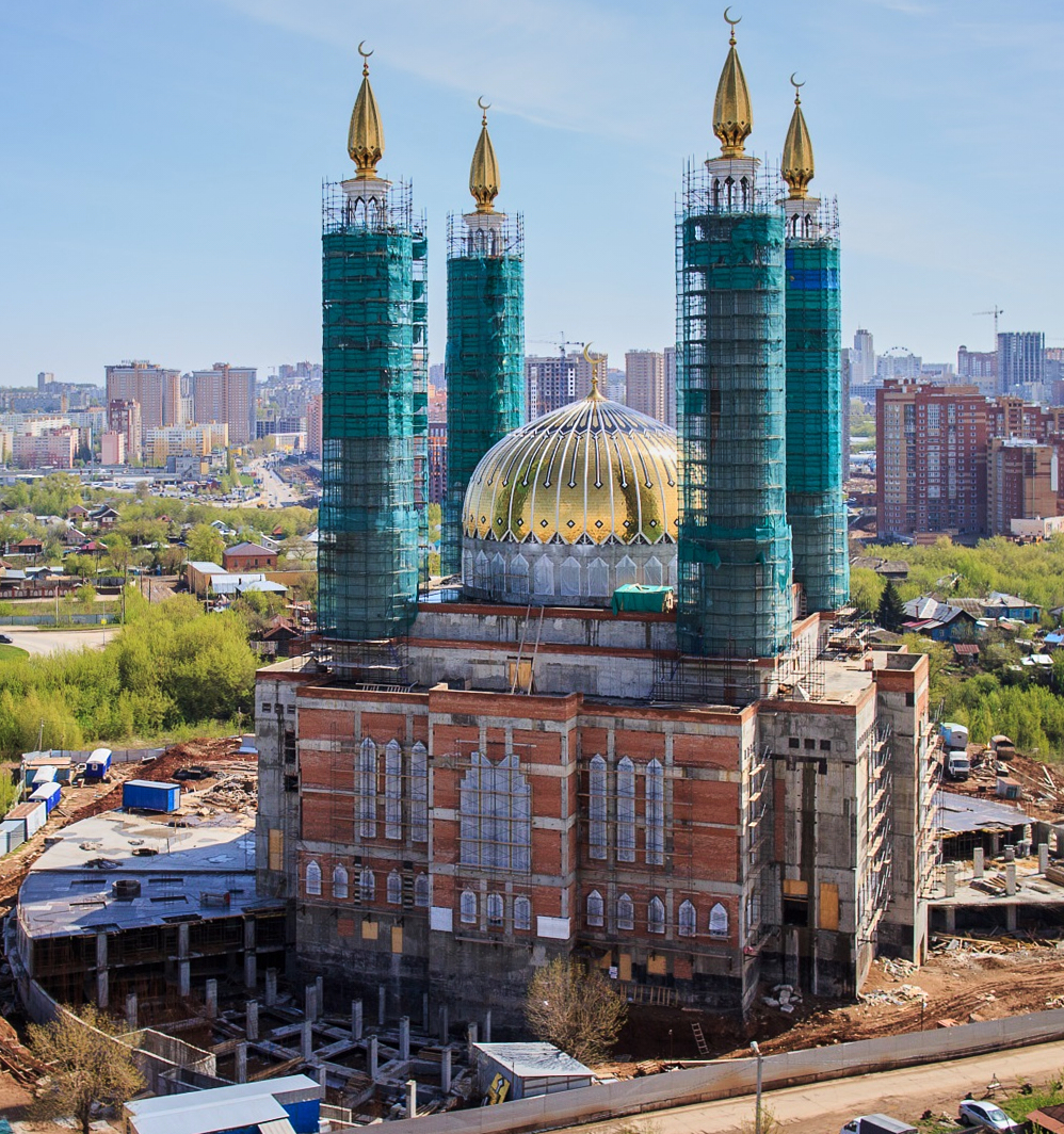 Ar-Rahim mosque in Ufa in 2015. Башҡортса: Әр-Рәхим мәсете 2015 йылда.